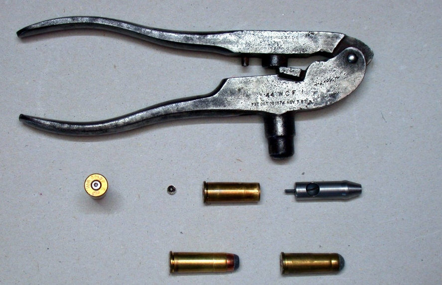 44-40 WCF reloading tool